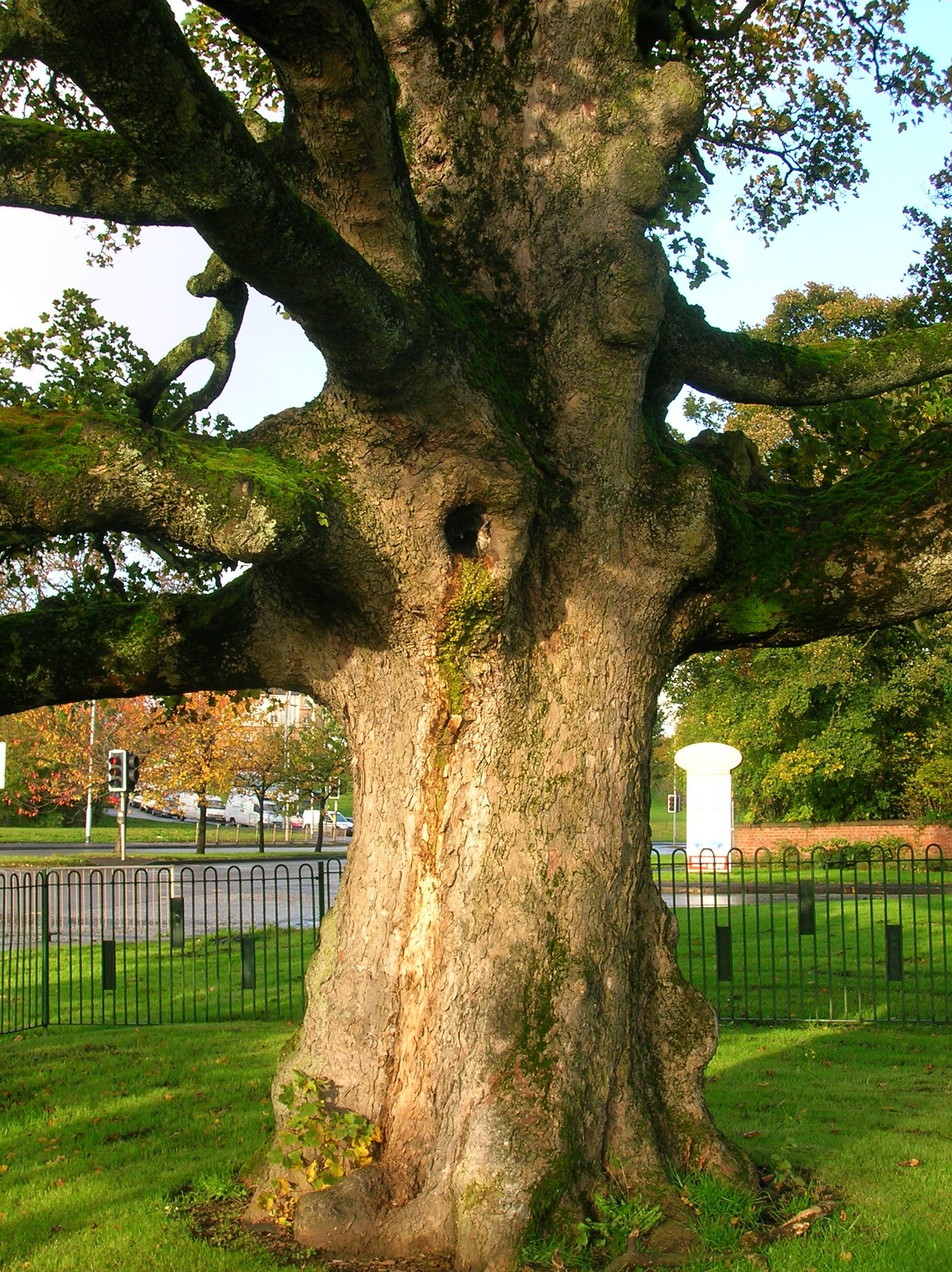 The trunk of the Darnley Plane (Sycamore is the English name for the species) under which Mary Queen of Scots is said to have nursed Henry Stuart, Earl of Darnely, her sick husband.